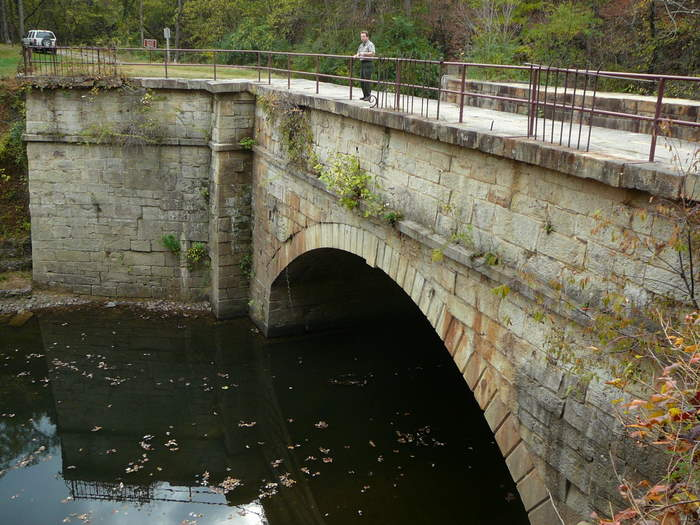 Picture of Fifteen Mile Creek Aqueduct on the C and O Canal